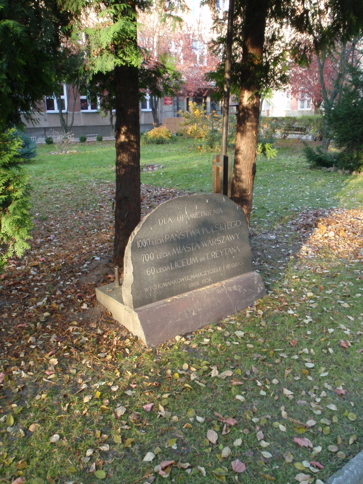 Stone commemorating 1000'th anniversary of Republic of Poland in front of VI LO in Warsaw